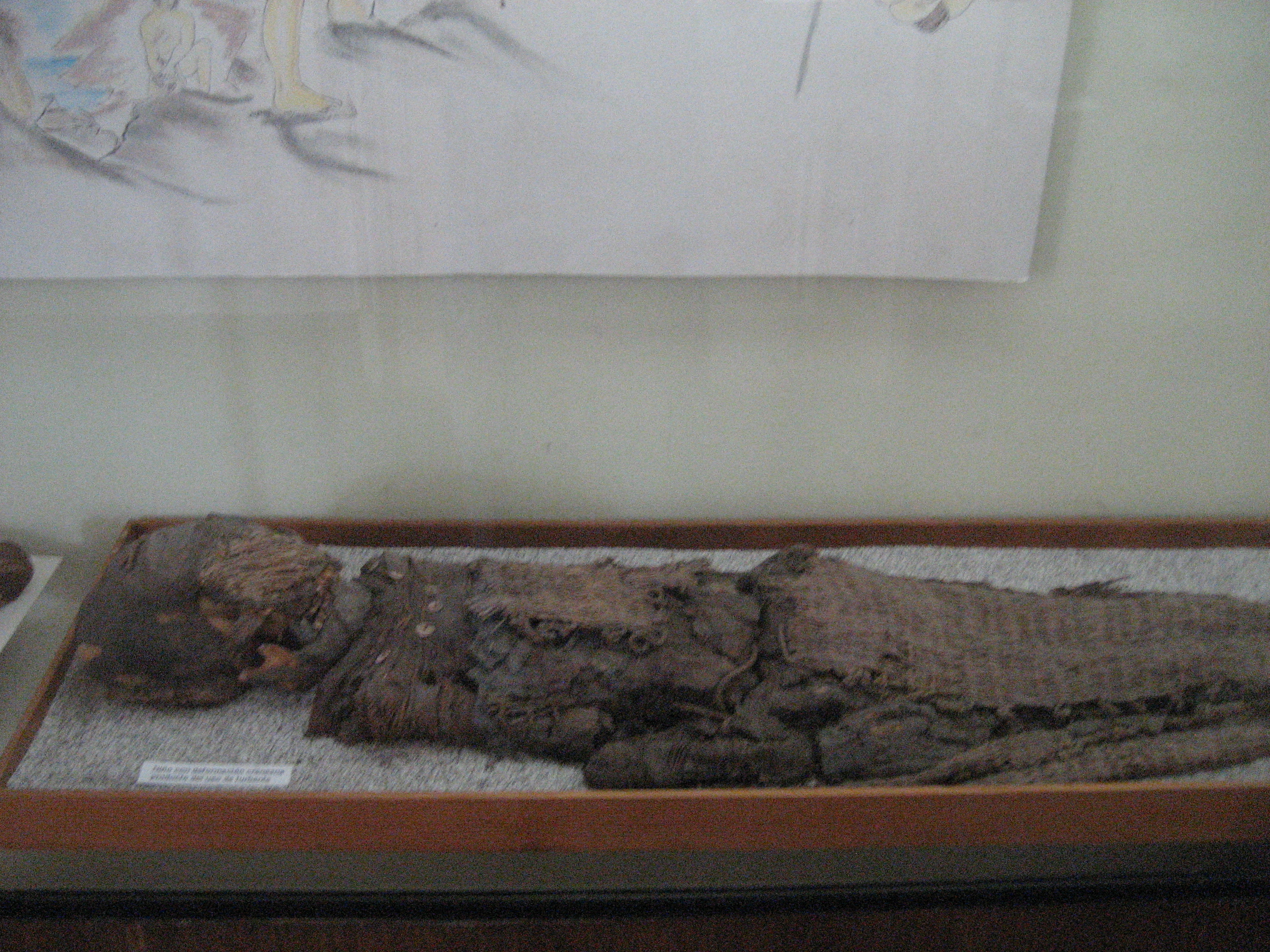 Chinchorro mummy in North Peru.